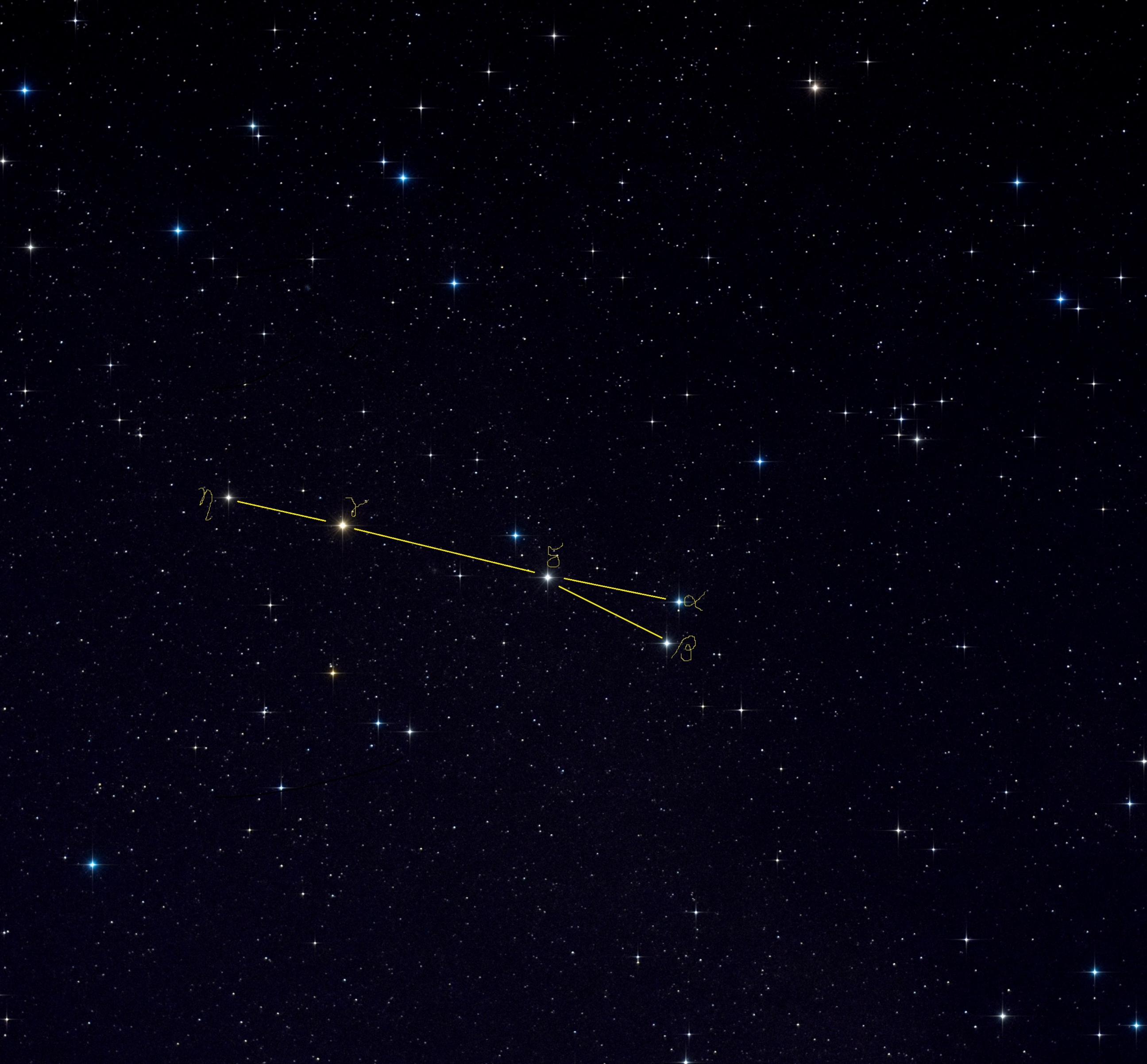 The constellation Sagitta, four main stars labelled.